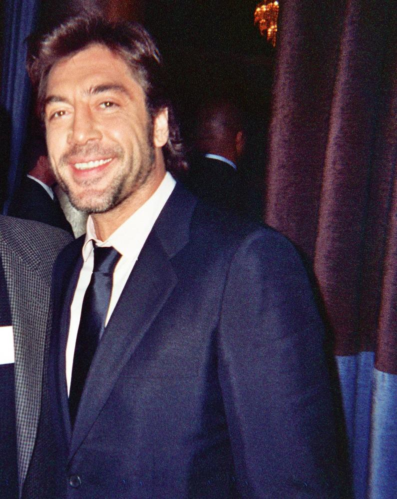 Actor Javier Bardem.